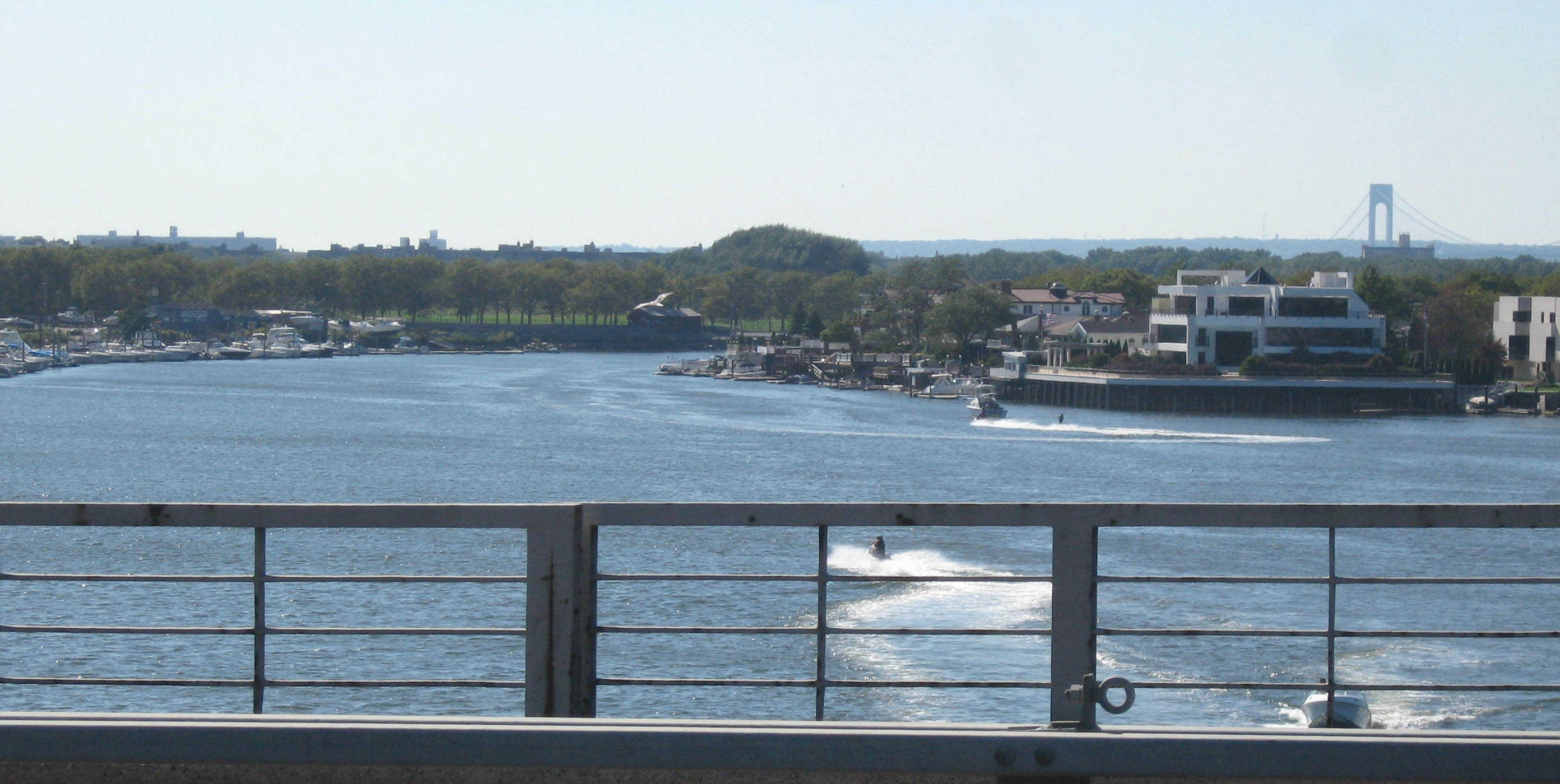 Looking westward into Mill Basin, Brooklyn on a sunny early afternoon